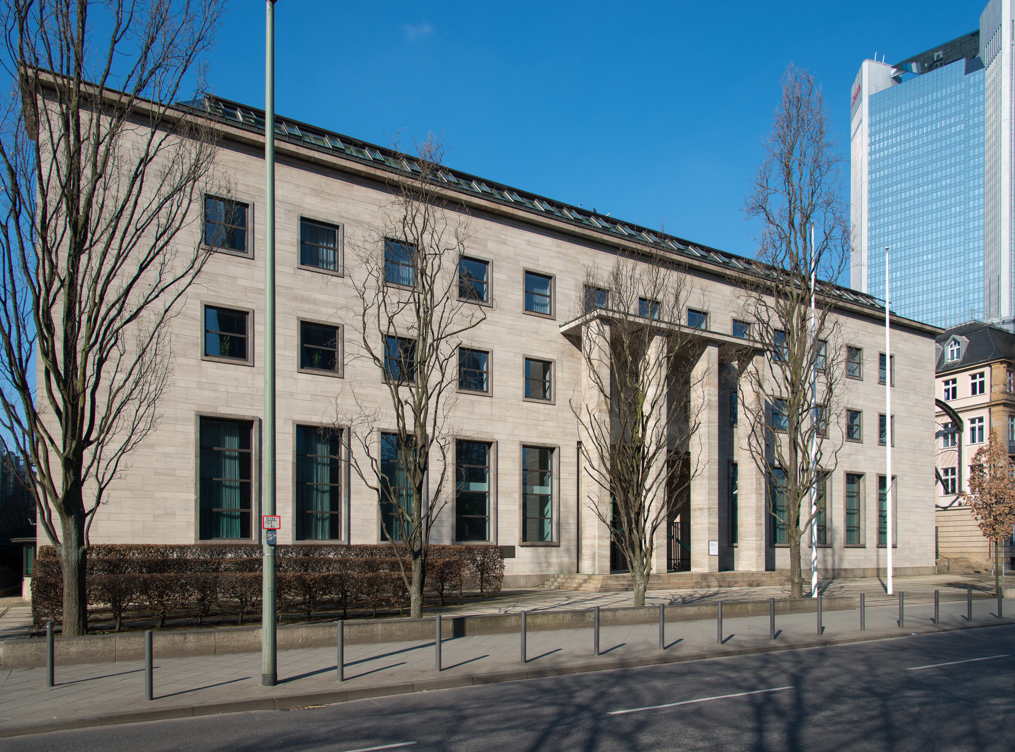 Frankfurt am Main, Taunusanlage 4. Cultural monument of the city from 1929-1933 (modified 1984-1985).